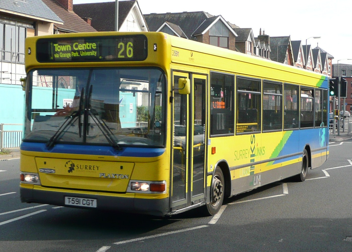 Arriva Guildford & West Surrey 3591 (T591 CGT), a Dennis Dart SLF/Plaxton Pointer 2 in Woodbridge Road, Guildford, Surrey, on route 26. The bus is owned by Surrey County Council and leased to Arriva, hence the special livery. They were purchased by the council to use up the last of a year's budget that would have otherwise been lost. The idea was to use them on Surrey CC tendered services to the south of Guildford. When photographed here 3591 had escaped onto a Sunday working of circular Guildford route 26. Arriva's 3591 and 3592 (T591 CGT and T592 CGT) started off being leased to Tillingbourne, but moved to Arriva after Tillingbourne collapsed and Arriva took over some of their Surrey CC tendered routes. Dart T593 CGT went to Stagecoach, and there was also an Optare MetroRider, T594 CGT that saw service with various operators, including Countryliner, but has since gone.